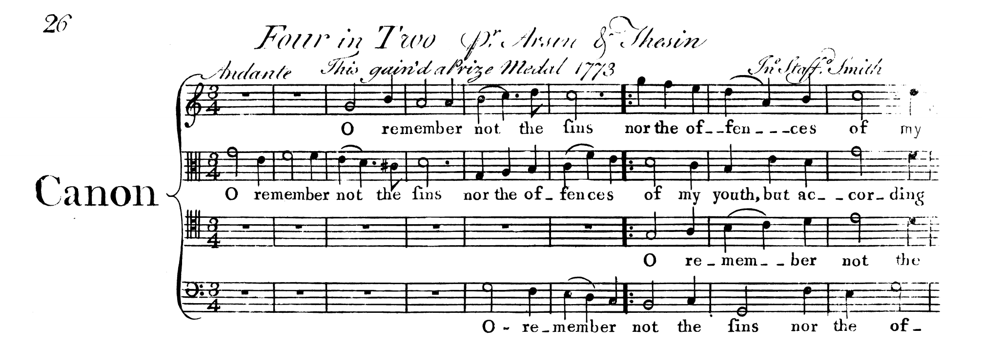 Beginning of "O Remember" by John Stafford Smith. From "A Twelfth Collection of Catches, Canons and Glees", Longman and Broderip, c. 1773